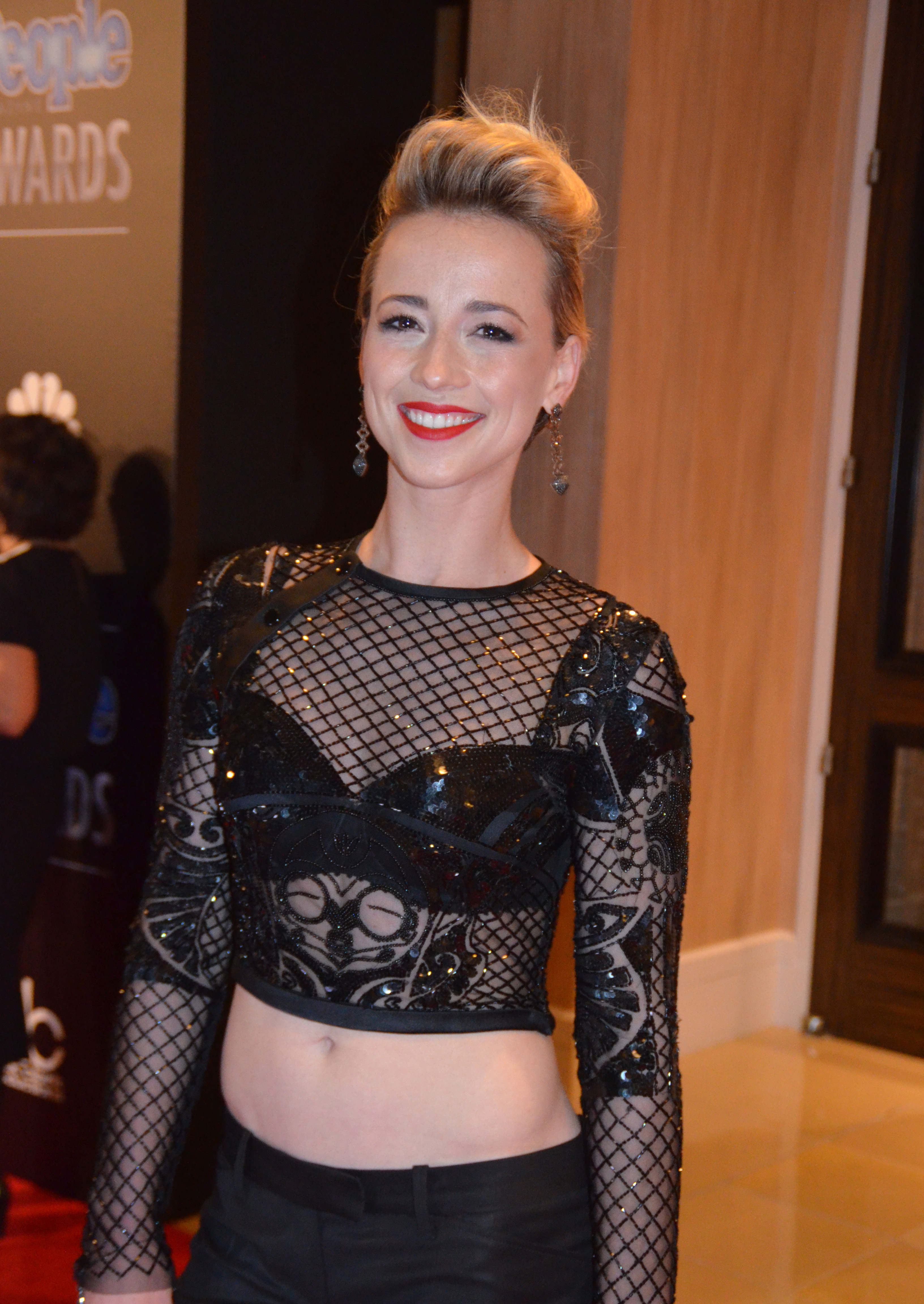 Karine Vanasse at the “The PEOPLE Magazine Awards” held at the Beverly Hilton and broadcast on NBC TV.